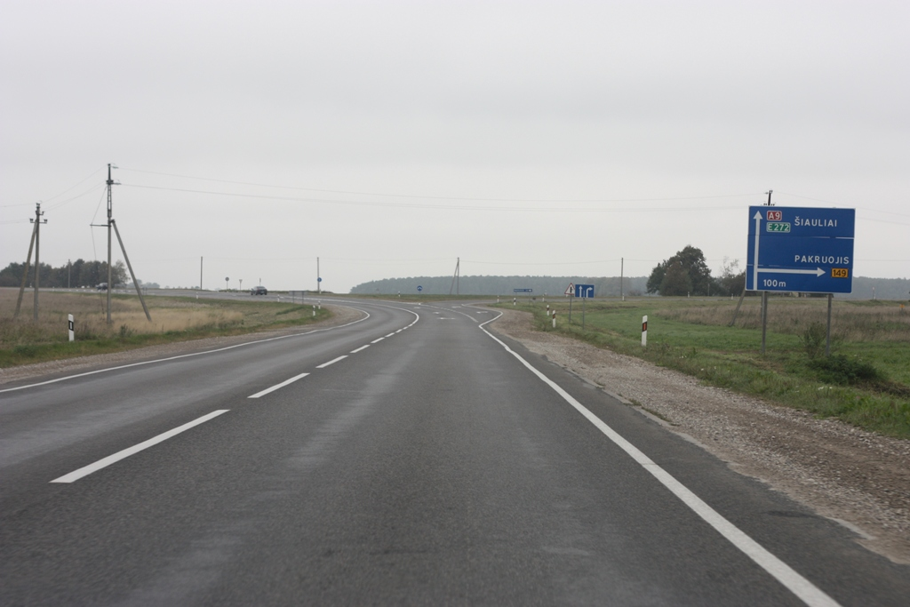 Road A9 near Smilgiai, Panevėžys district, Lithuania.